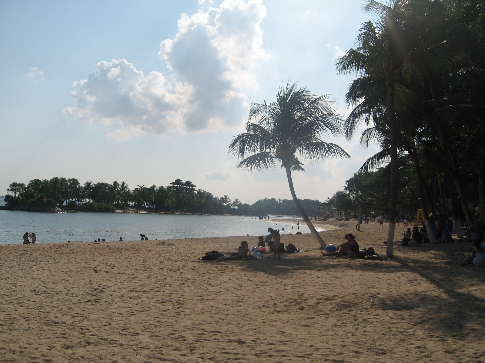 Palawan Beach and nature of Singapore. On Sentosa Island in Singapore. Taken by Terence Ong in July 2006.